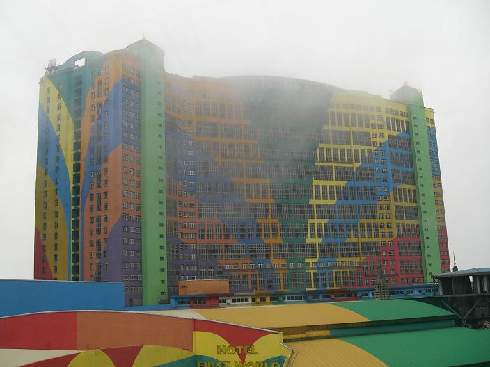 First World Hotel, Genting Highlands, Malaysia.